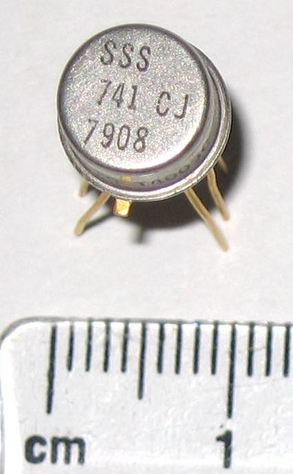 This picture shows a 741 operational amplifier, in the a TO-5/metal can package.